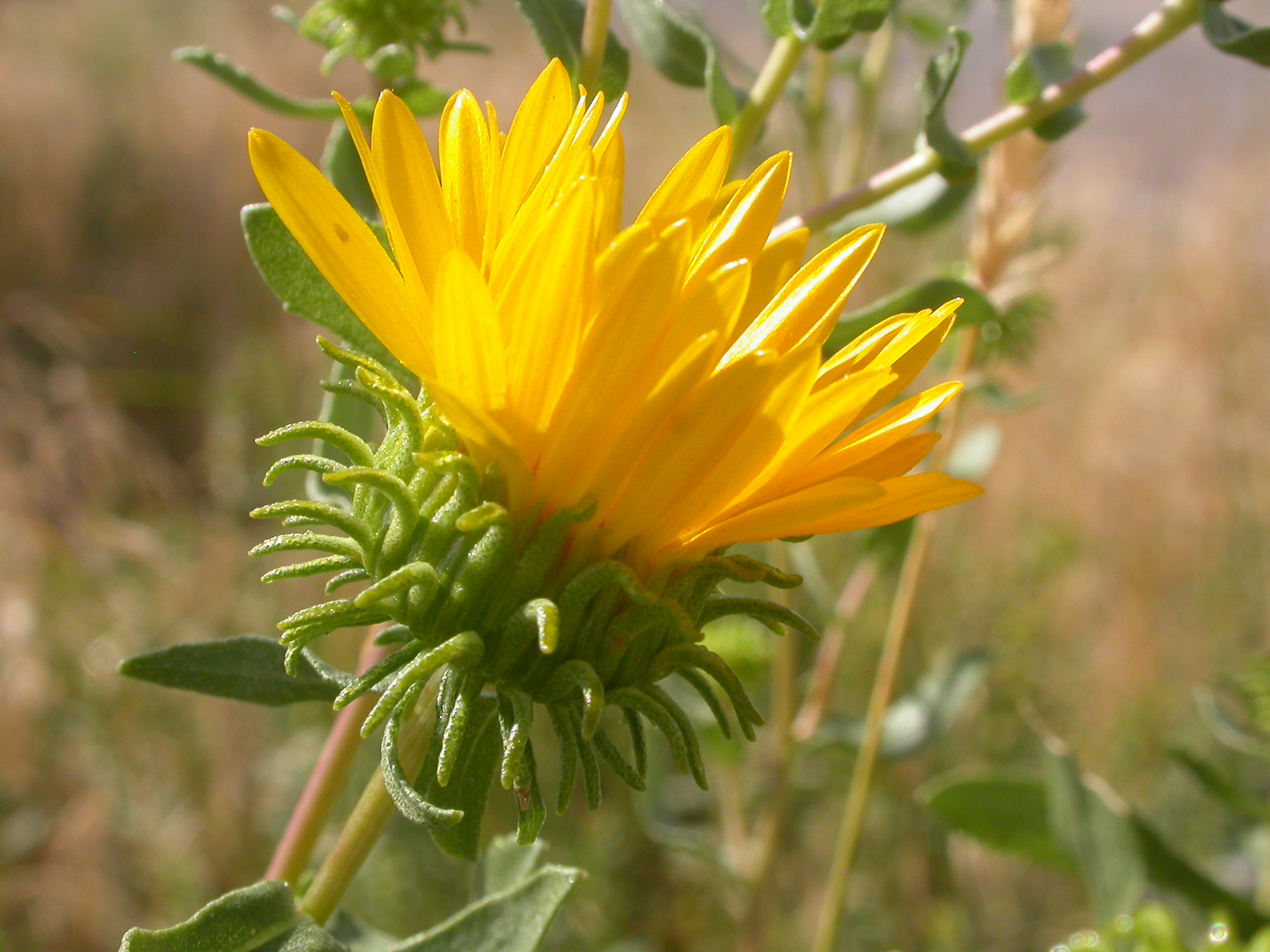 The common name derives from the recurved involucral bracts.